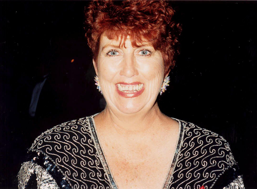 Marcia Wallace at the Governor's Ball after the Emmy telecast 9/11/94 - Permission granted to copy, publish, broadcast or post but please credit "photo by Alan Light" if you can